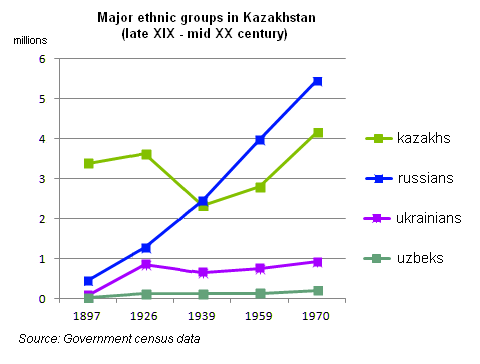 Kazakhstan, Kazakh SSR demographics from 1897-1970.